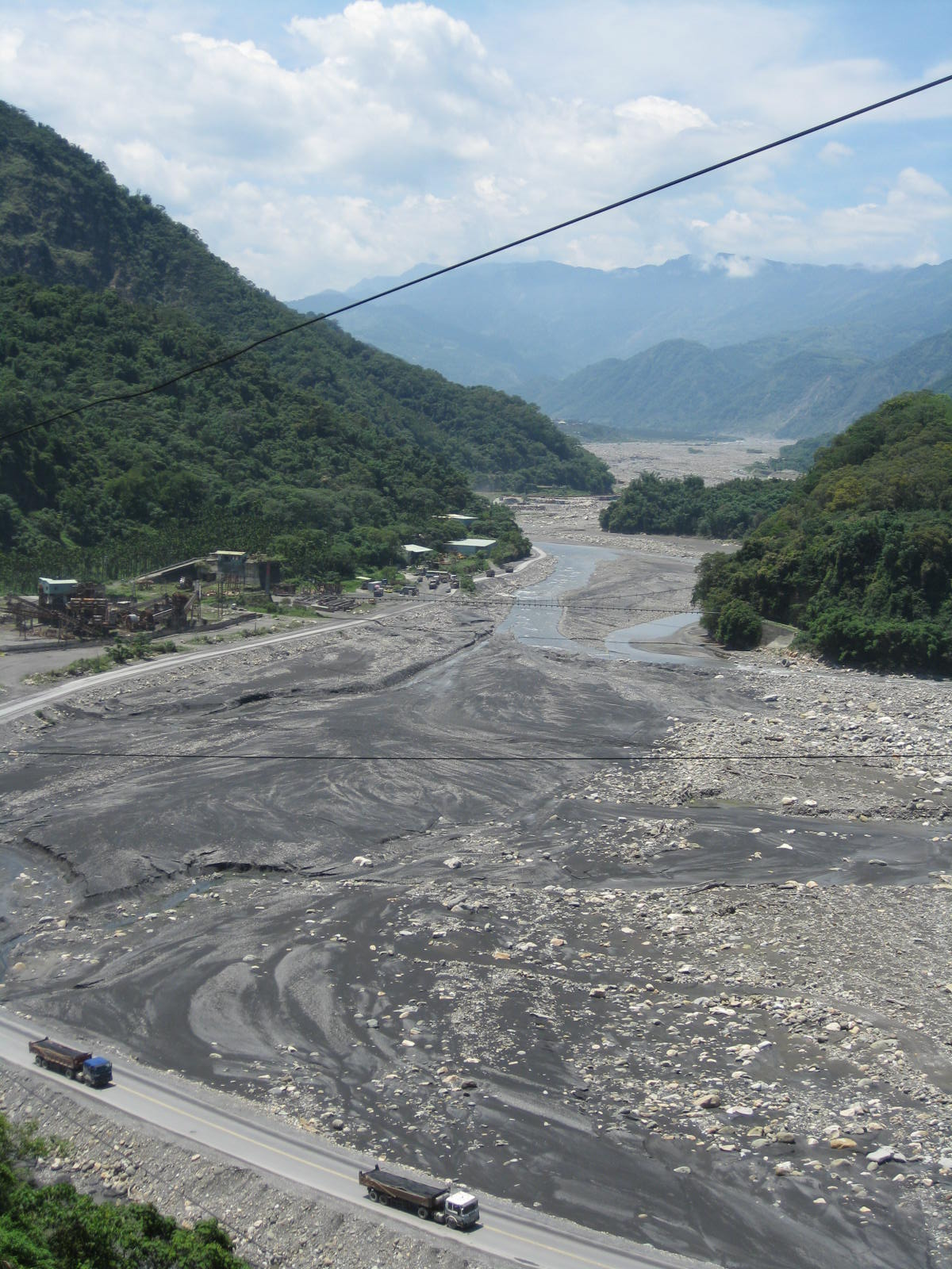 Chenyoulan River is a geological huge rift valley that extends from Dingkan to Tataka and Batongguan.